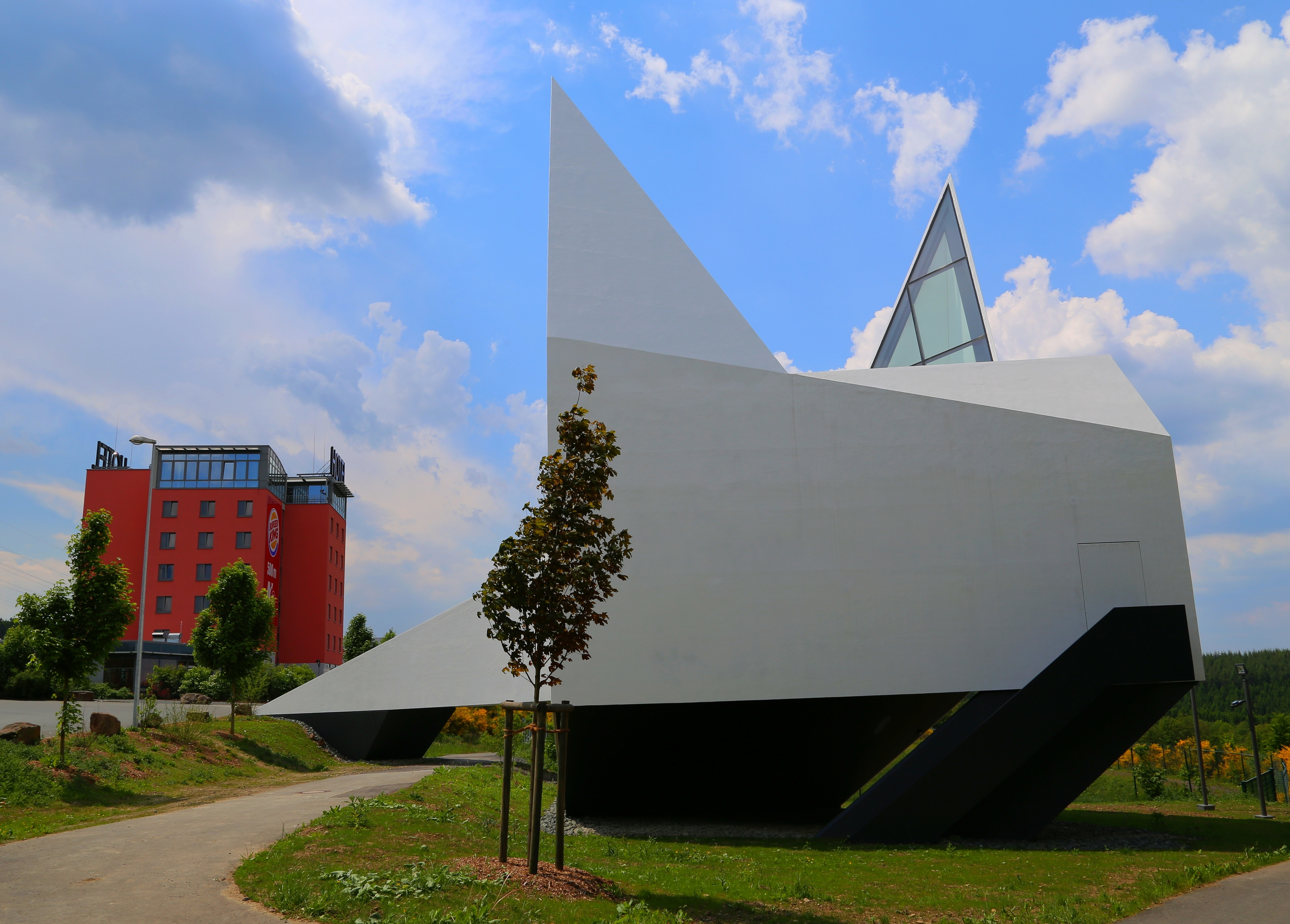 Autobahnkirche Siegerland in Wilnsdorf, Kreis Siegen-Wittgenstein, North Rhine-Westphalia, Germany.